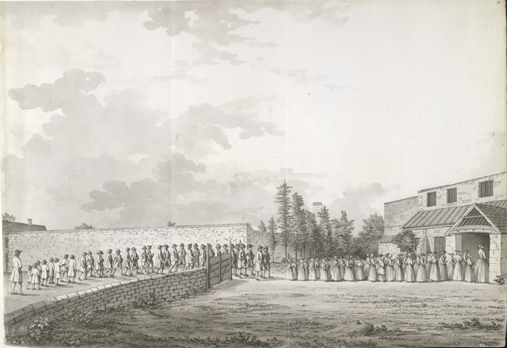 Kirkby-in-Ashfield in Nottinghamshire